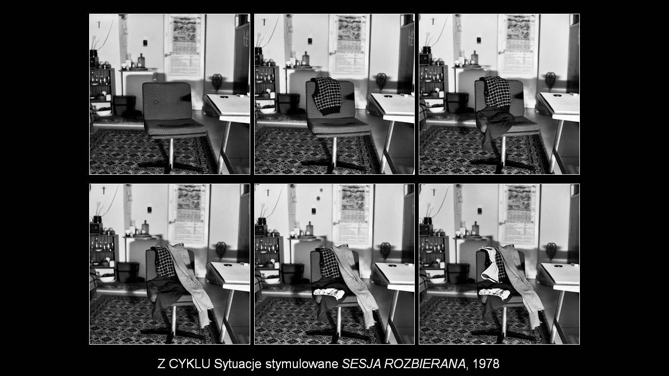 The photo is a cycle of photographs created by Anna Kutera.